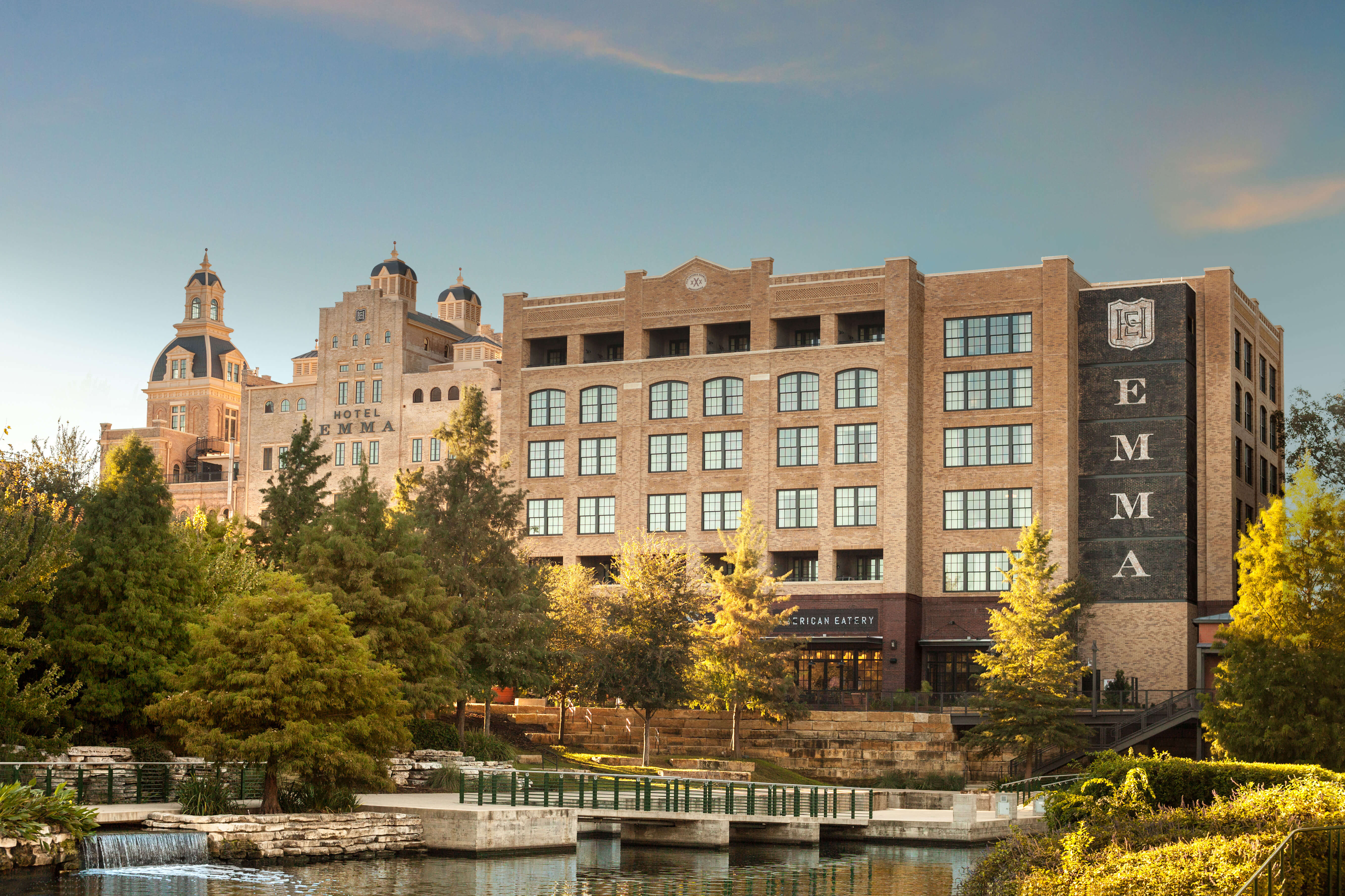 Exterior of Hotel Emma from the San Antonio Riverwalk.